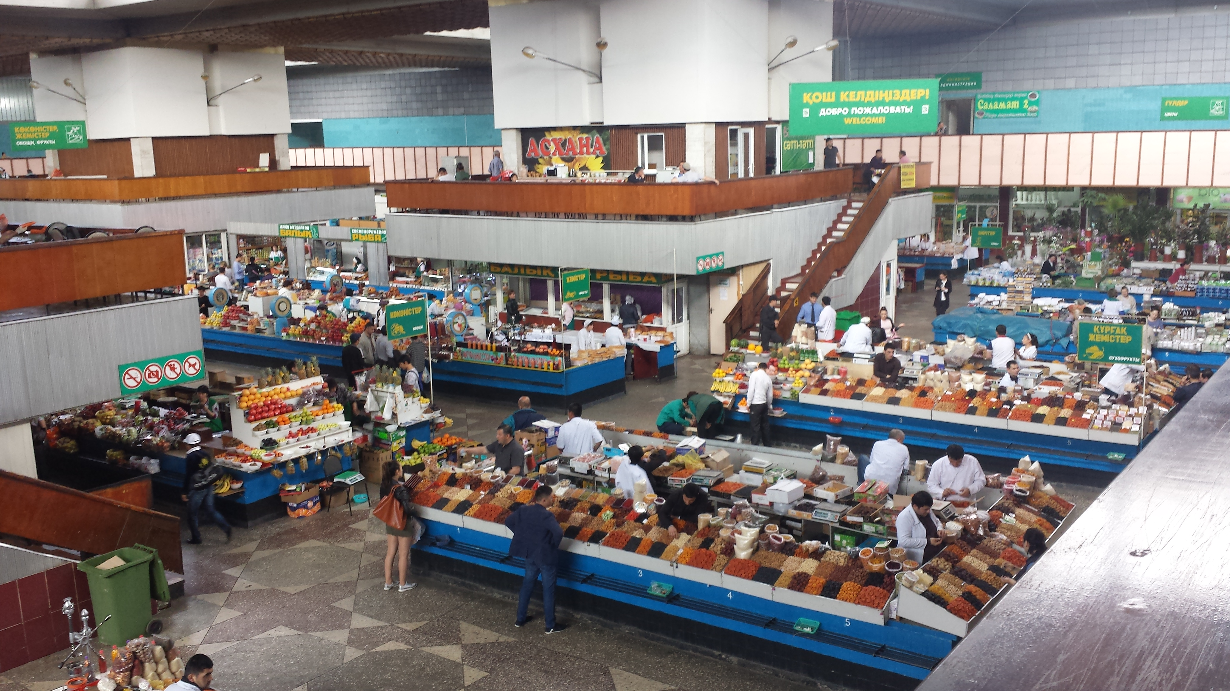 The Green Bazaar in Almaty (Kazakhstan)